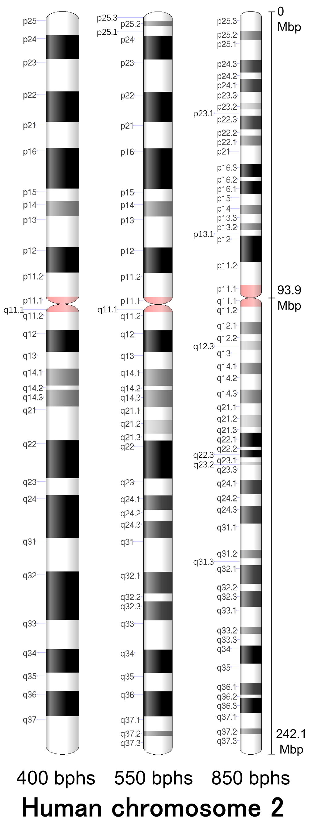 Ideograms of G-band pattern of human chromosome 2 in three different resolutions (400, 550 and 850 bphs, bands per haploid set). Different resolutions are corresponding to different band patterns observed through mitotic phase (about relation between banding resolution and mitotic phase, see, for example, Fig.3 in W Sethakulvichaia (2012)). Legend: Black and gray is Giemsa positive. Red is centromere. Light blue is variable region. Dark blue is stalk. At the right, centromere position (center) and q arm terminus position (bottom), counted from p arm terminus (top) in Mbp (mega base pairs), are labeled. Physical length (sometimes referred as "absolute length") is not labeled. Because physical length of chromosomes vary while mitosis. (typical human chromosome physical length is in the order of from several micrometers to ten and several micrometers. See, for example, Category:Human chromosome images with scale bars.).